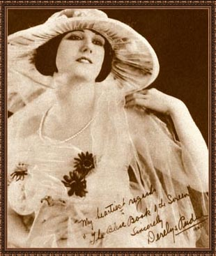 Publicity photo of Derelys Perdue from The Blue Book of the Screen by Ruth Wing, editor